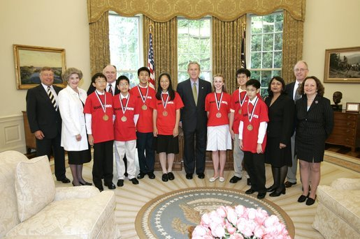 (caption from original: President George W. Bush meets award recipients of the 2005 MATHCOUNTS National Competition in the Oval Office Thursday, May 12, 2005. )